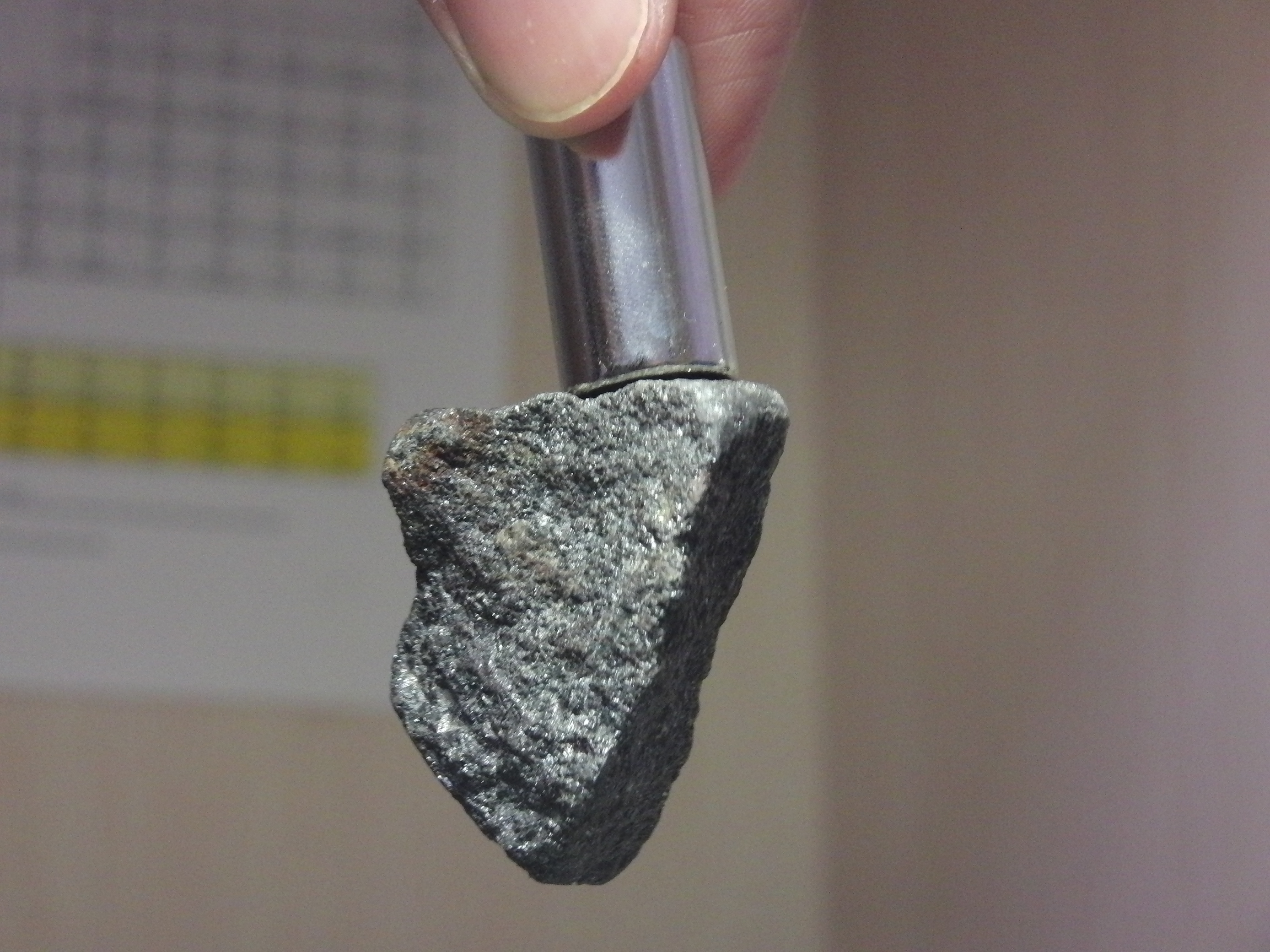 Magnetite sample with neodymium magnet